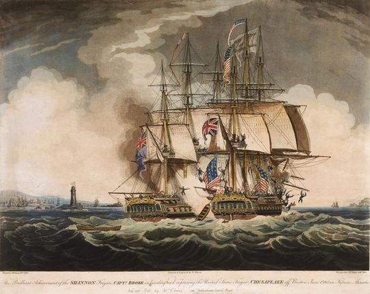 A depiction of the naval battle between Royal Navy frigate H.M.S. Shannon and the American frigate U.S.S. Chesapeake off the coast of Boston, Massachusetts, United States, in June 1813.